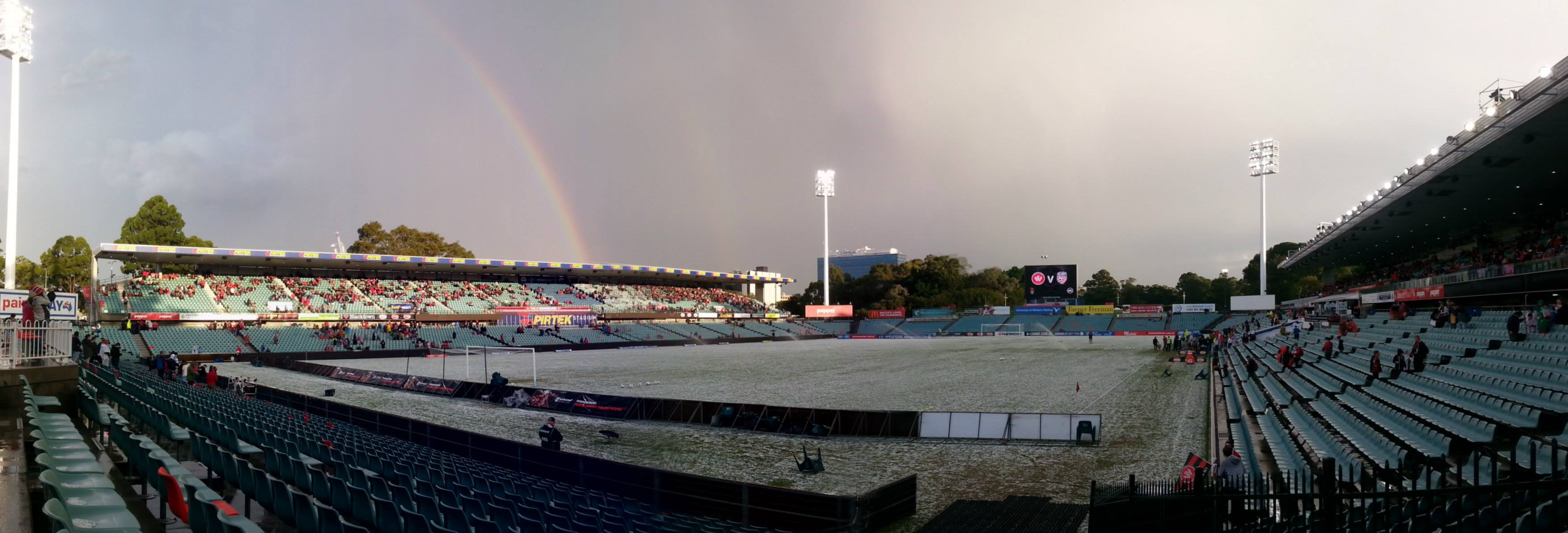 Parramatta Stadium Hail & Rainbow